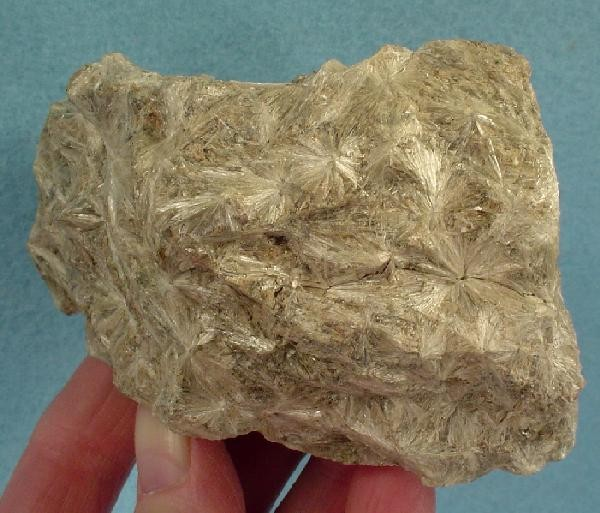 Tremolite Locality: Tremola Valley, Central St Gotthard Massif, Leventina, Ticino (Tessin), Switzerland (Locality at ) Size: 12.4 x 8.5 x 6.9 cm. An old-time, showy CABINET specimen of solid, radiating clusters of pearlescent, grayish-white, acicular amphibole variety tremolite crystals from Switzerland. Classic and historic material from the Tremola Valley of the St. Gotthard Massif and the Harvard and George Elling Collections.